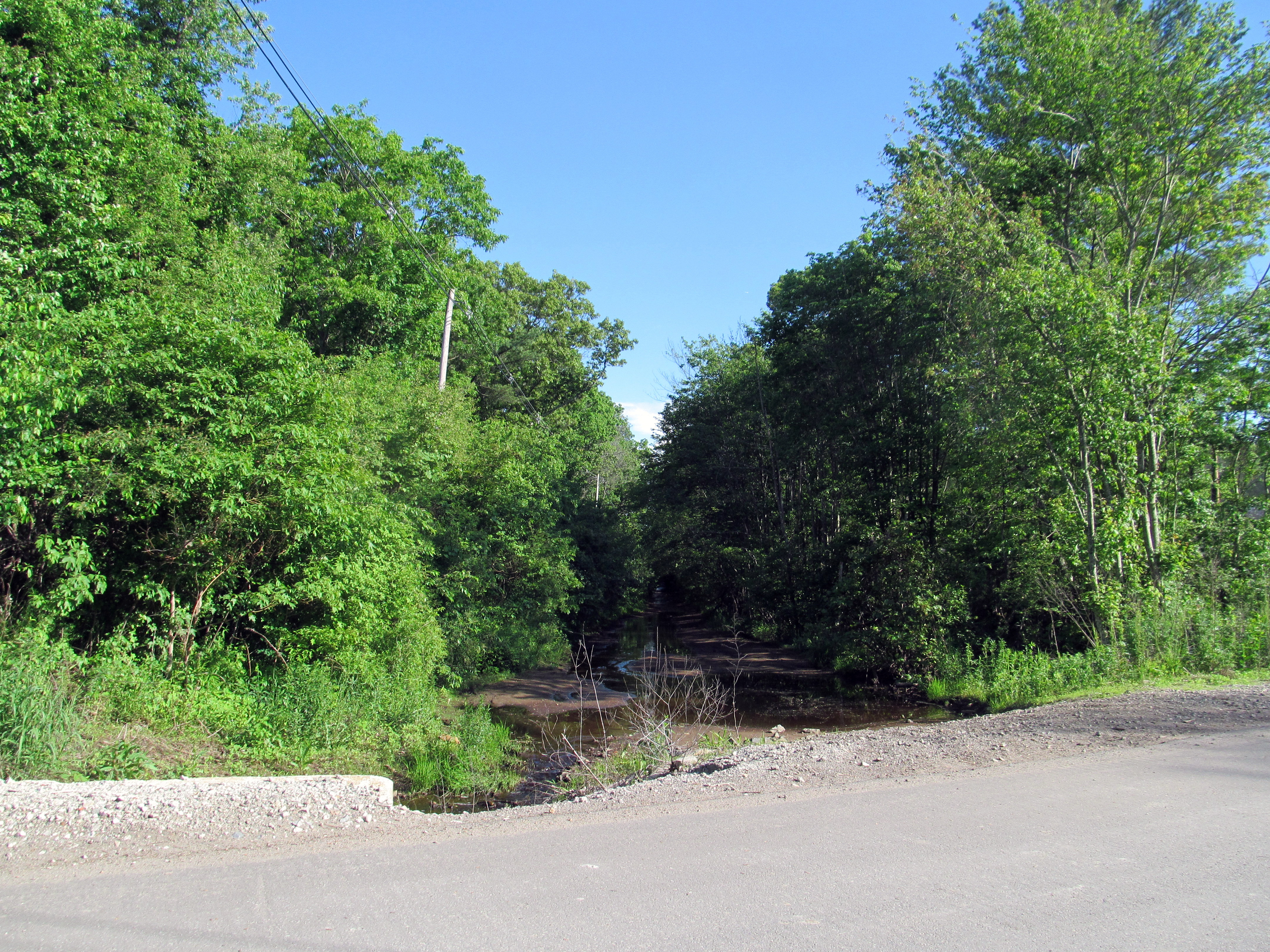 Proposed location of the Raynham Place station, photographed in June 2017